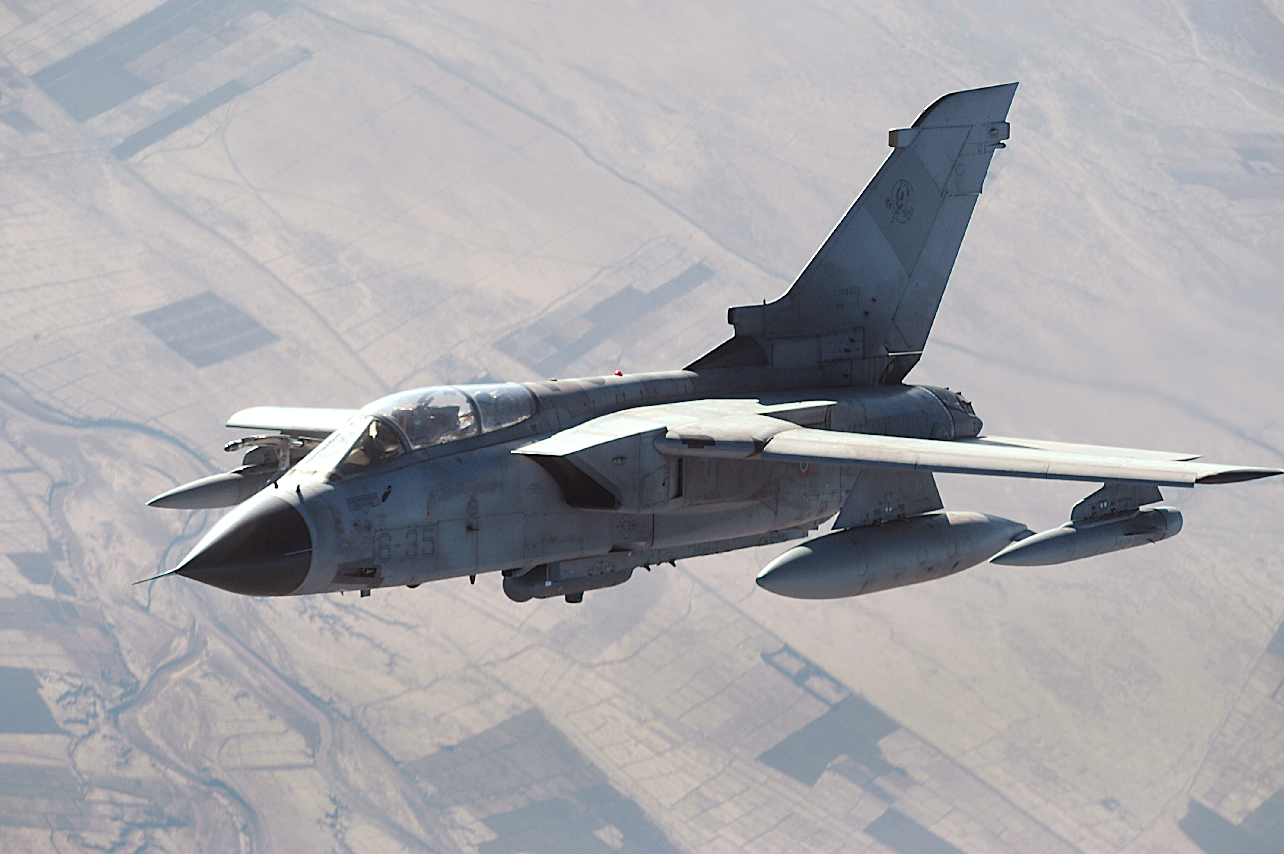 An Italian Panavia Tornado IDS of 6° Stormo over Afghanistan on 11 December 2008. (Note: In the USAF caption the airplane is identified as a "French" Tornado, France, however never flew the Tornado.)